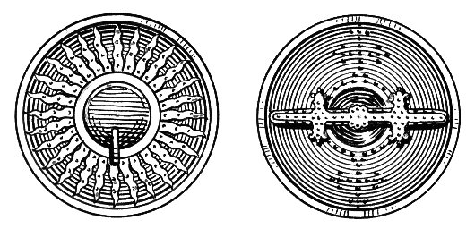 line art drawing